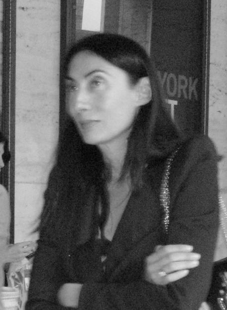 Anh Duong leaving the Diane Von Furstenberg show at Lincoln Center. September 12, 2010.